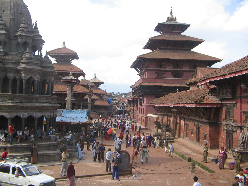 View of Patan Durbar Square. From left to right: Chyasim Deval, Harishankar Temple, Vishwonath Temple, Bhimsen Temple, Taleju Temple. Also seen are the Taleju Bell and the statue of Yogendra Malla.